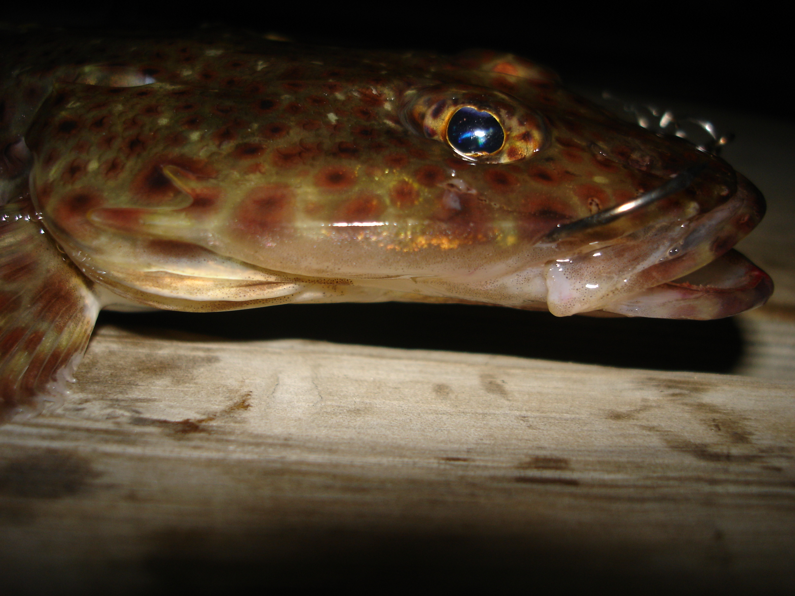 Platycephalus bassensis